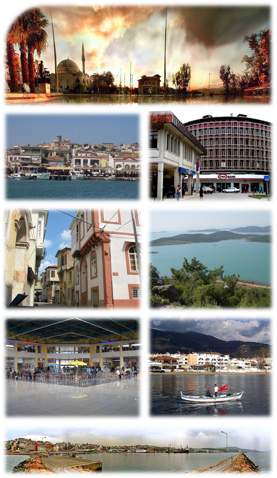 Collage of Balıkesir.